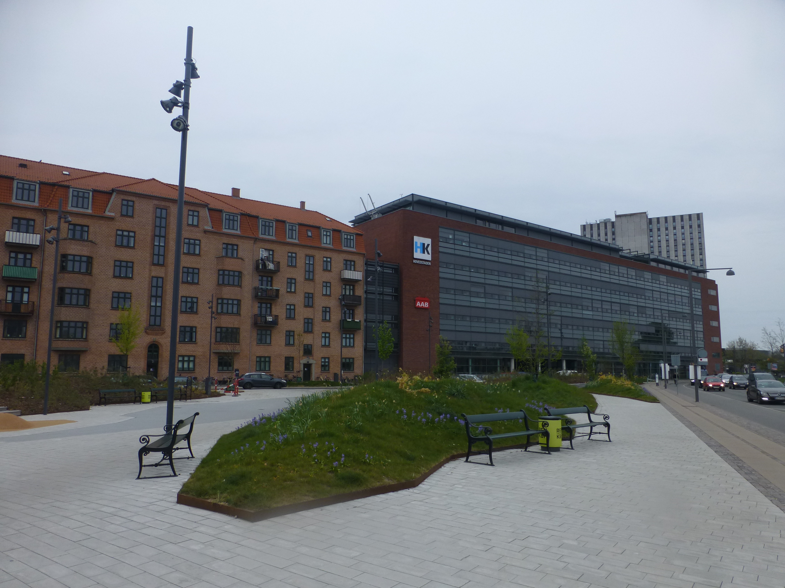 The square Svend Aukens Plads in Islands Brygge in Copenhagen.